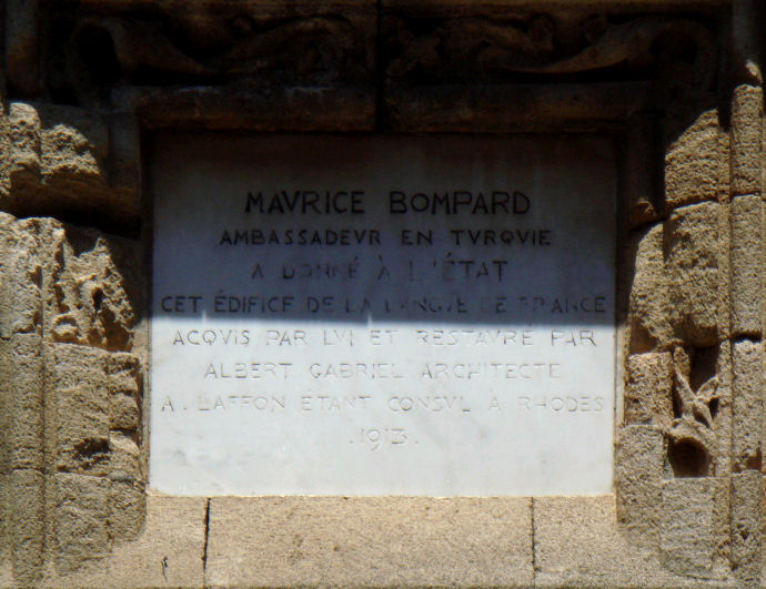 Maurice_Bompard, 1912 plaque, Rhodes